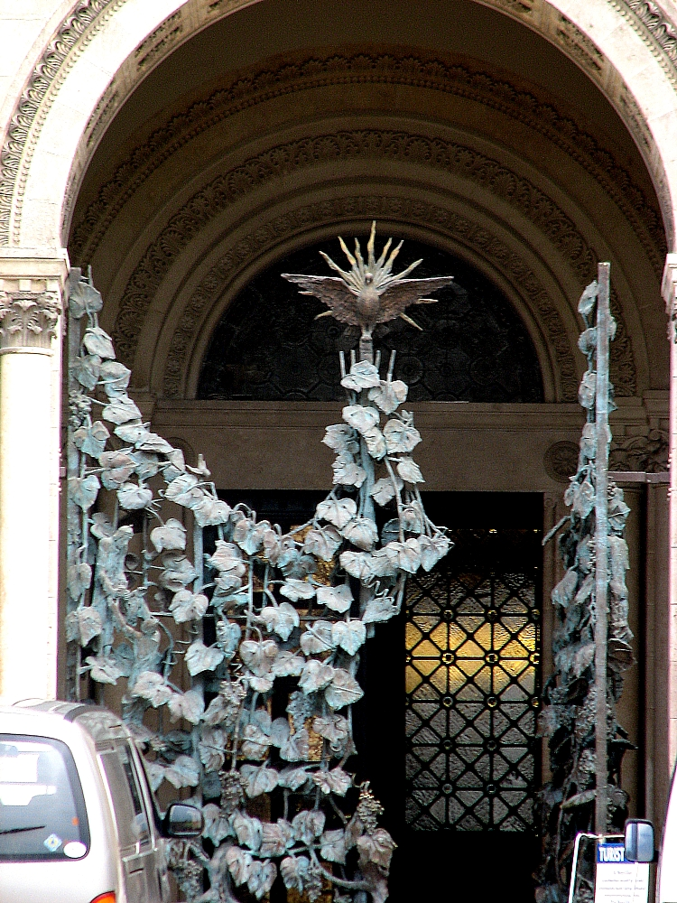 The gate of the Cathedral of Pécs. A külső millenniumi díszkapu (Rétfalvi Sándor, 2000, elemei: szőlőtőke, szőlőfürt, indák, madarak, gyíkok, békák). This is a photo of a monument in Hungary, Identifier: 1796